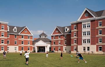 York River Hall